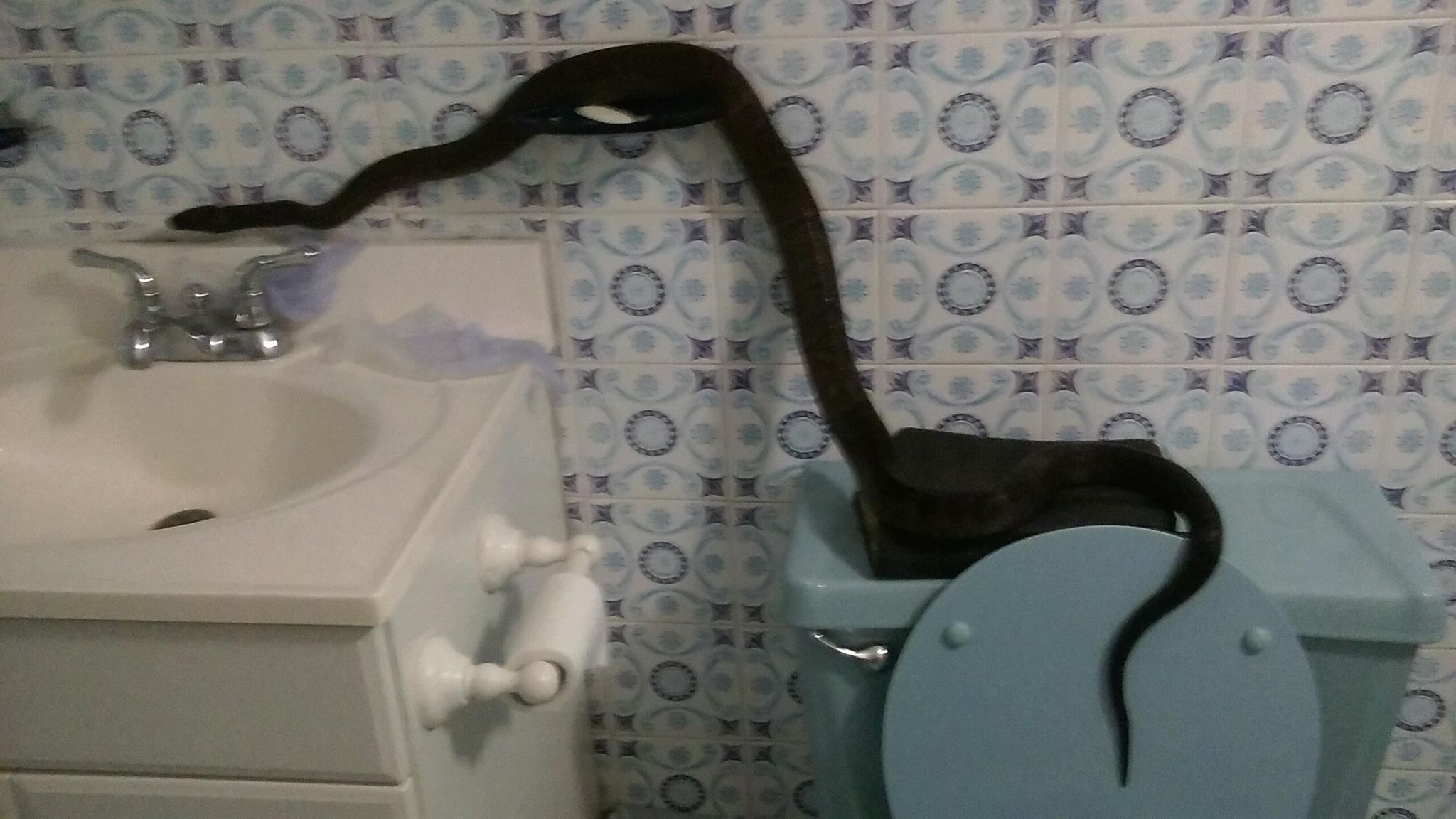 Protected species, but came through the toilet in a residence in Morovis, Puerto Rico on 18 October 2018.